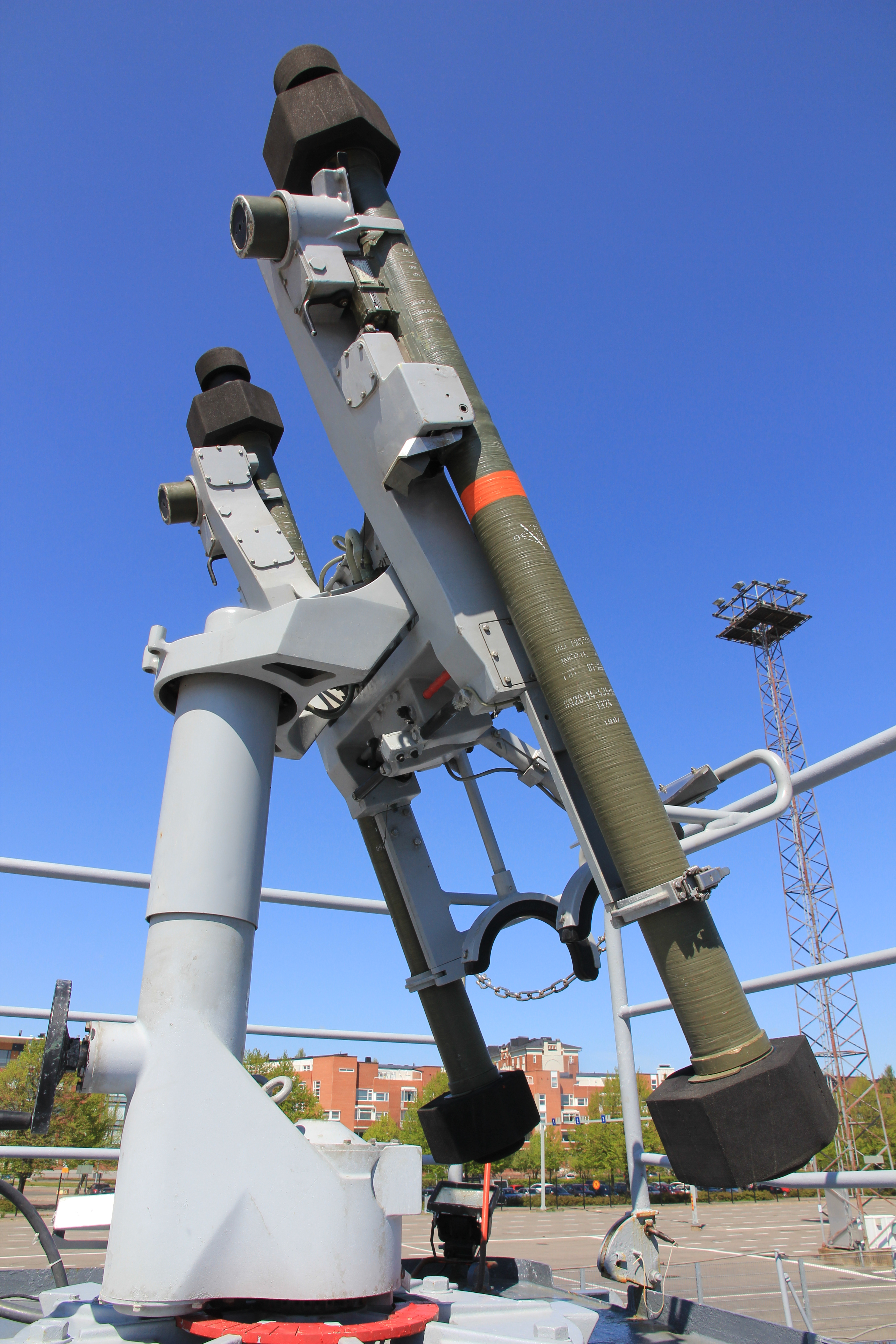 Aft twin Mistral SAM (Sinbad) of the French aviso Commandant Blaison (F793).